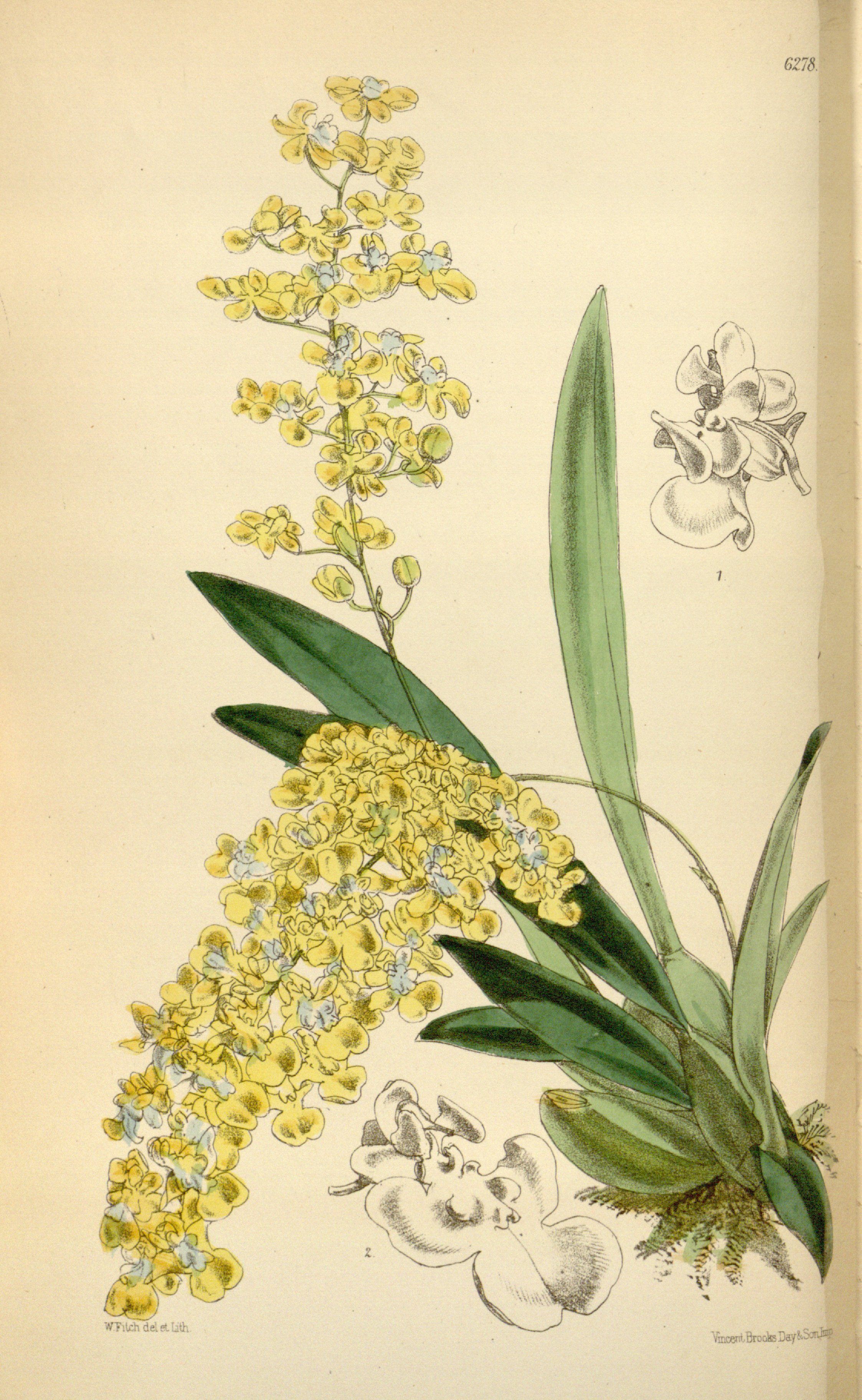 Illustration of Oncidium cheirophorum